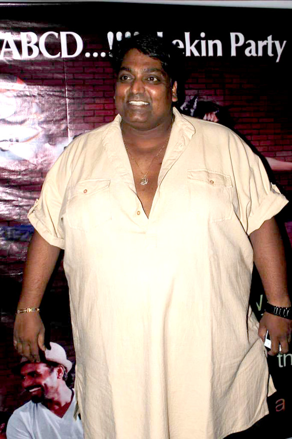 Ganesh acharya at the 'abcd' press meet